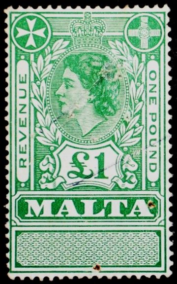 A 1954 Maltese revenue stamp portraying Queen Elizabeth II.